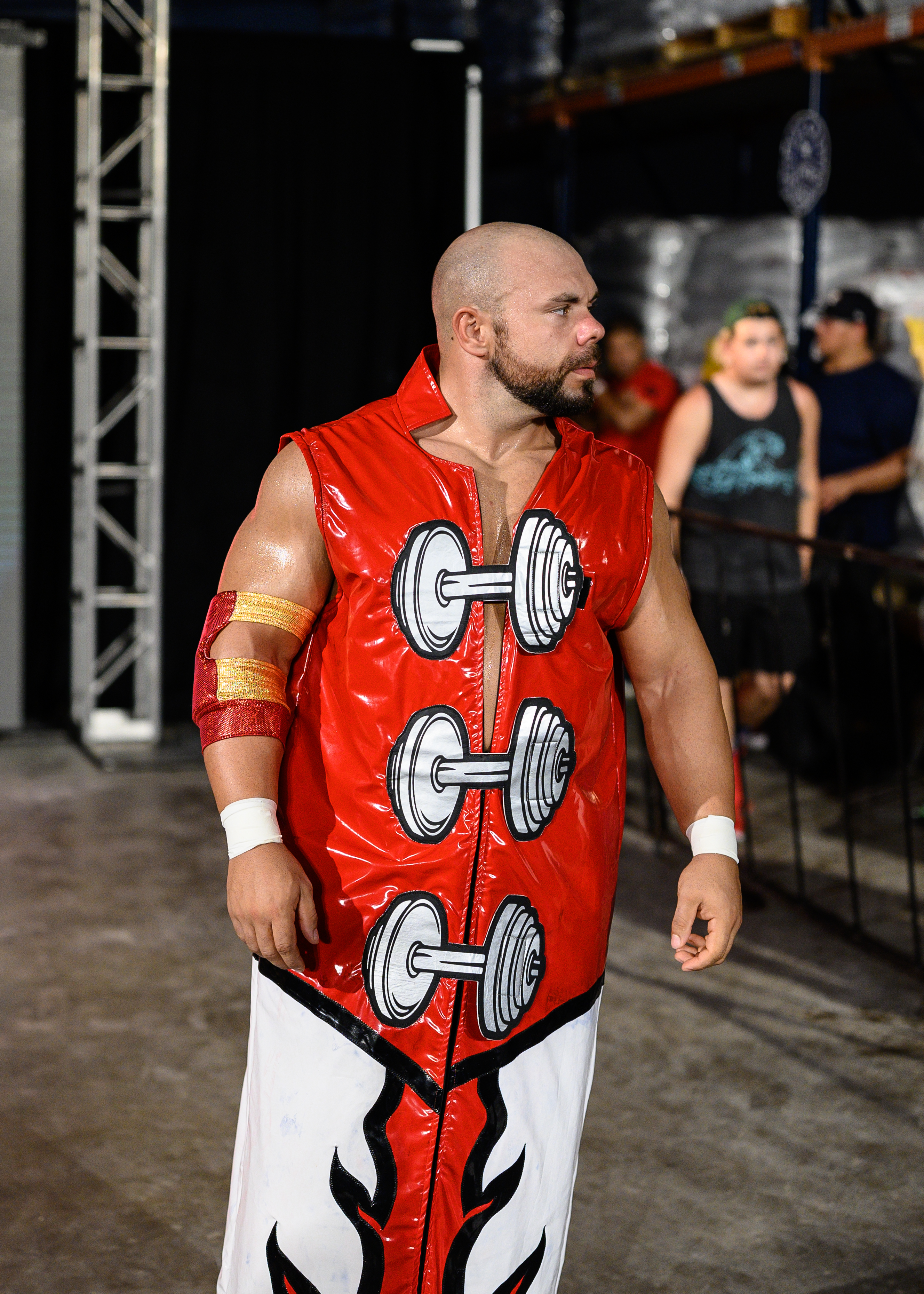 pro wrestler Michael Elgin